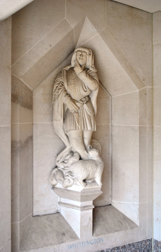 Dick Whittington and His Cat, a statue in the Guildhall, City of London